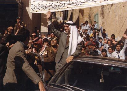 King Hussein waves to a welcoming crowd